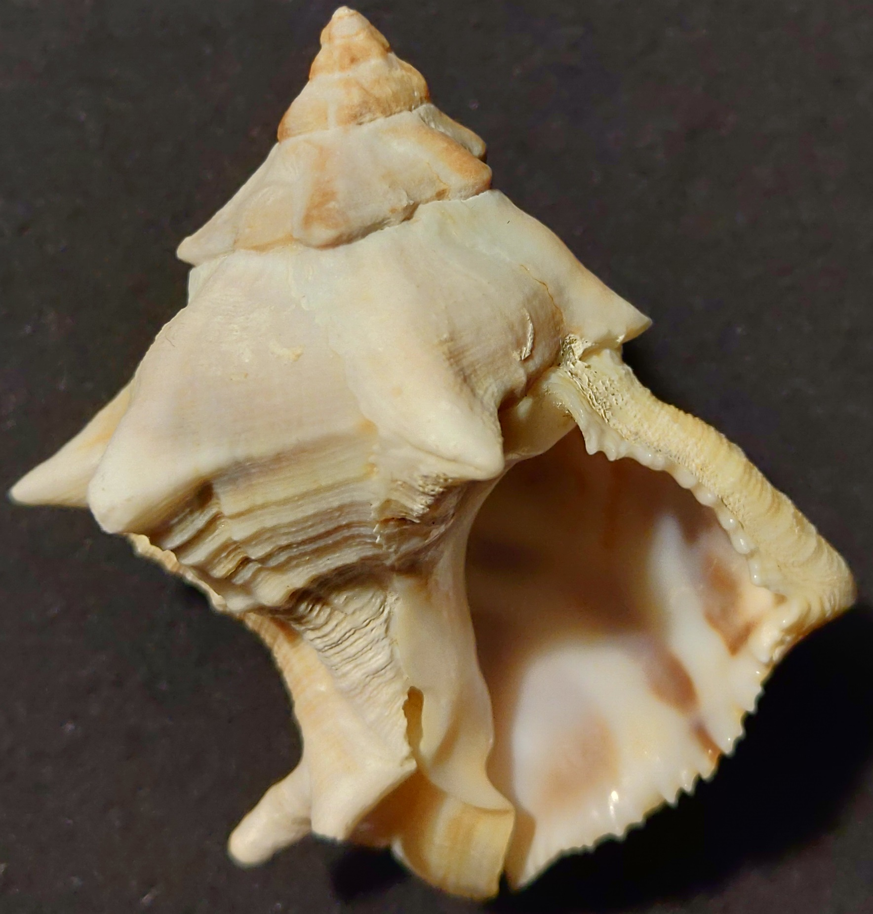 Hexaplex Pecchiolianus Front